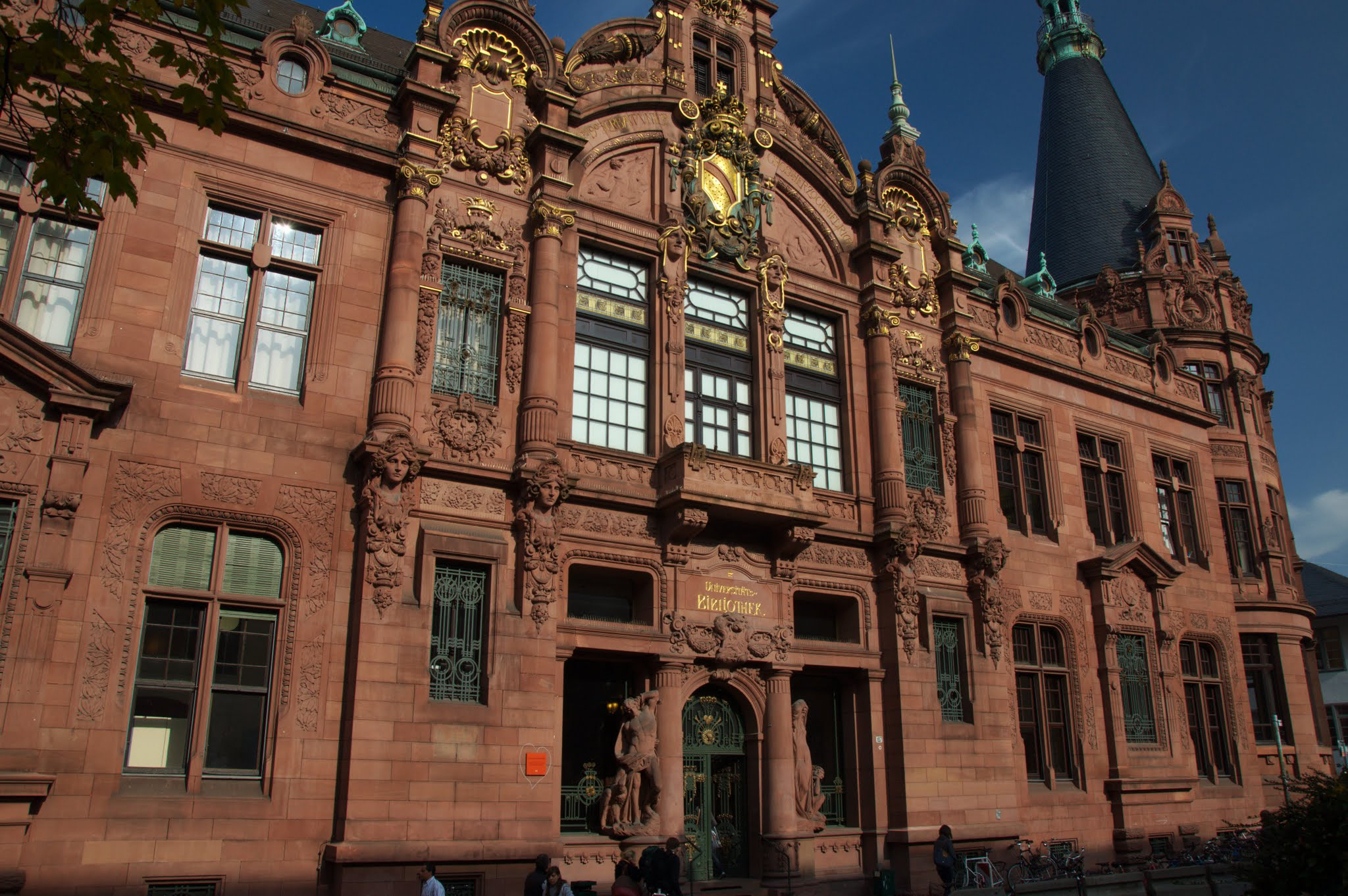 University Library